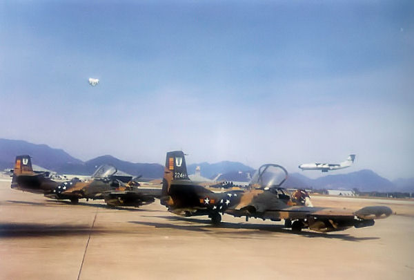 Cessna A-37B Dragonfly attack planes of the South Vietnamese Air Force (VNAF), 516th Fighter Squadron, Da Nang Air Base. A U.S. Air Force C-141A Starlifter is on short final in the background.